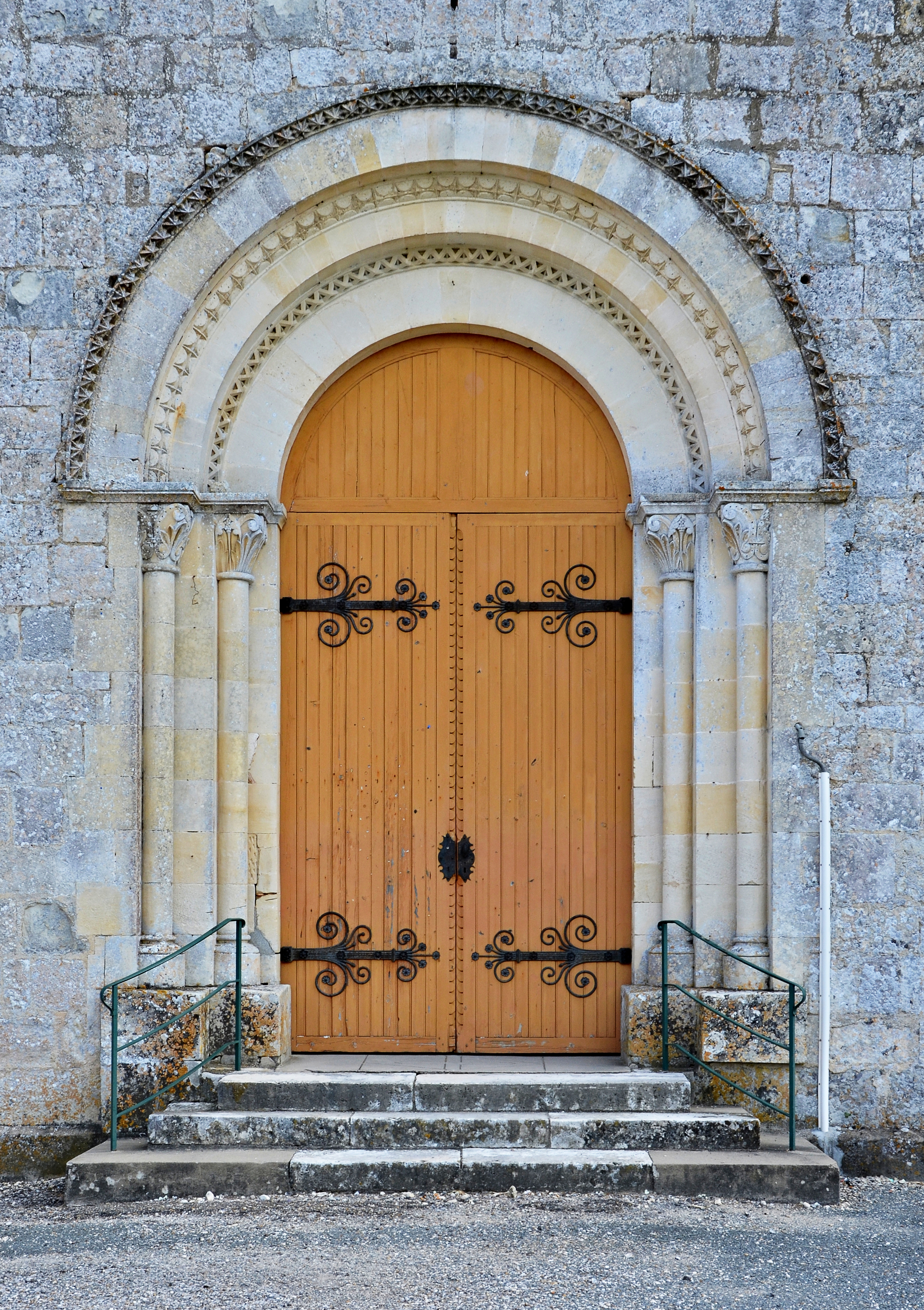 Porch of church of Saint-Étienne, (former abbey of the 11th century), Baignes-Sainte-Radegonde, Charente, France. .